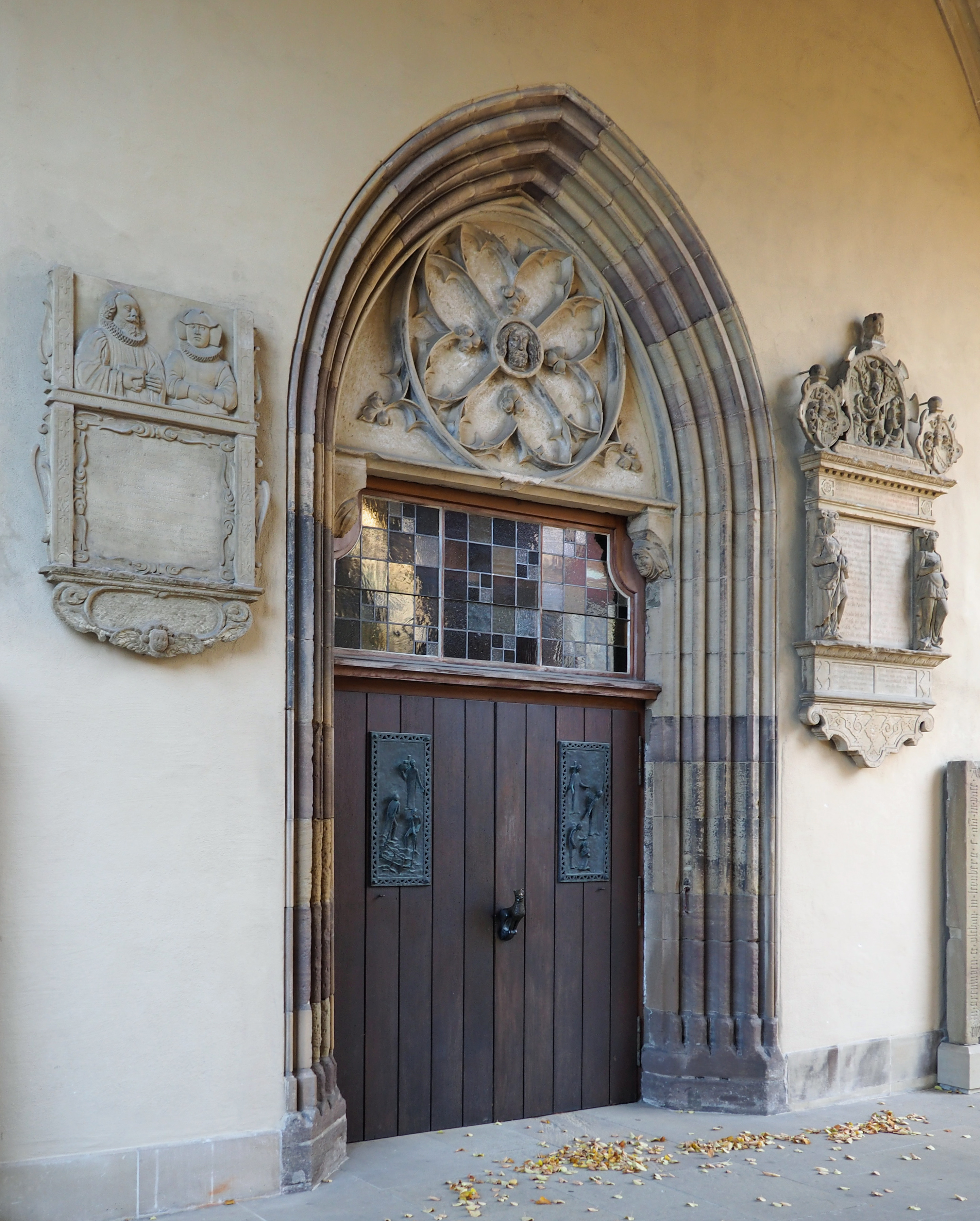 Entrance of the city church in Leonberg, German Federal State Baden-Württemberg.